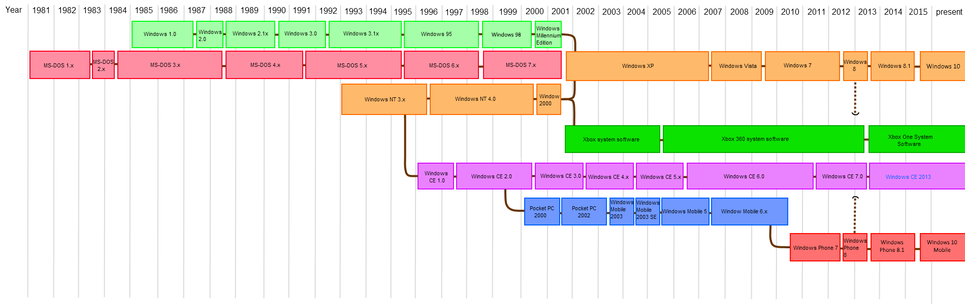 A timeline of Microsoft Operating Systems